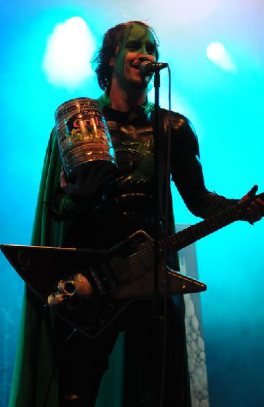 Sir Optimus Prime, Grailknights